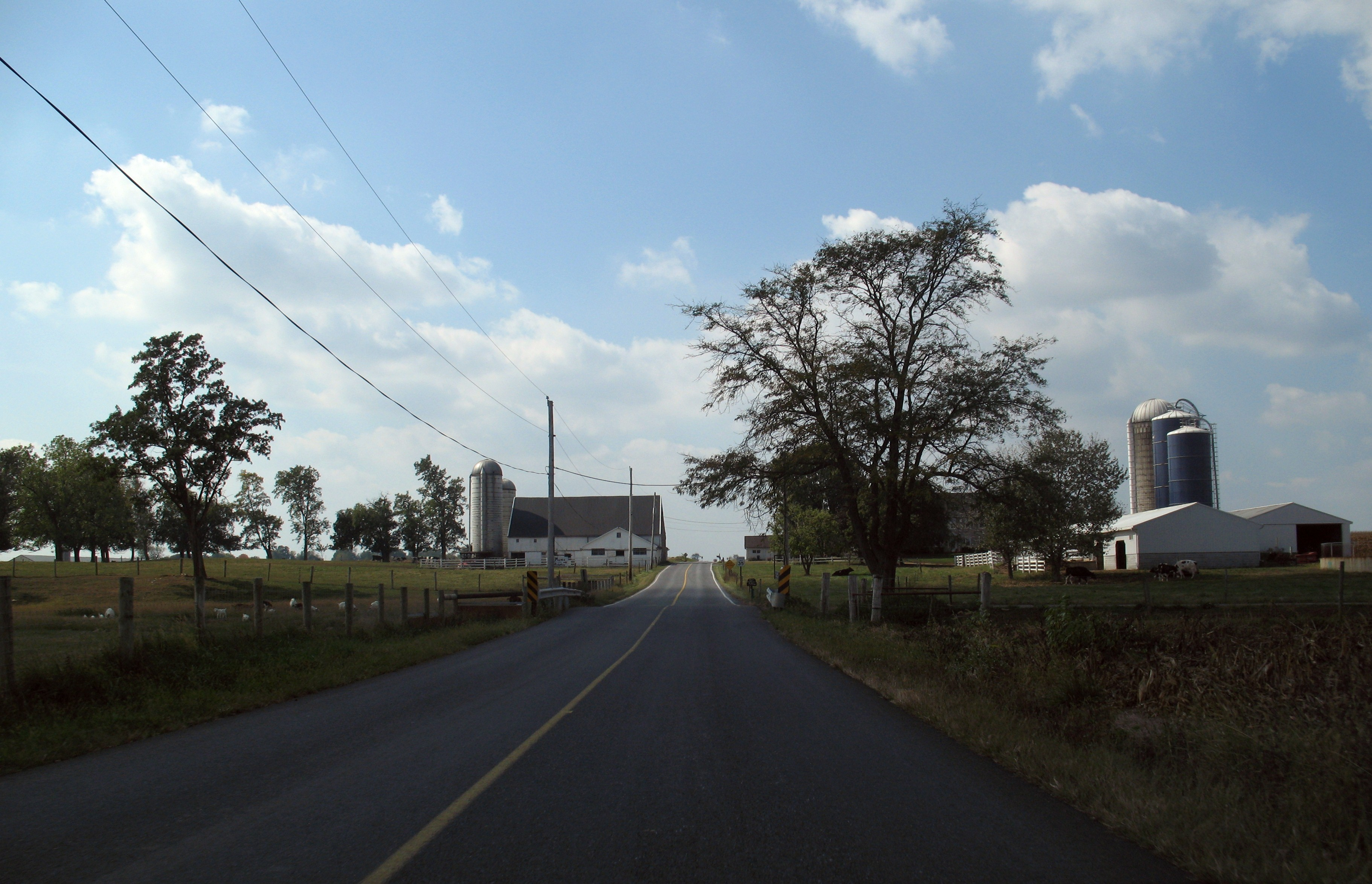 Hackman Road, Ephrata, Pennsylvania